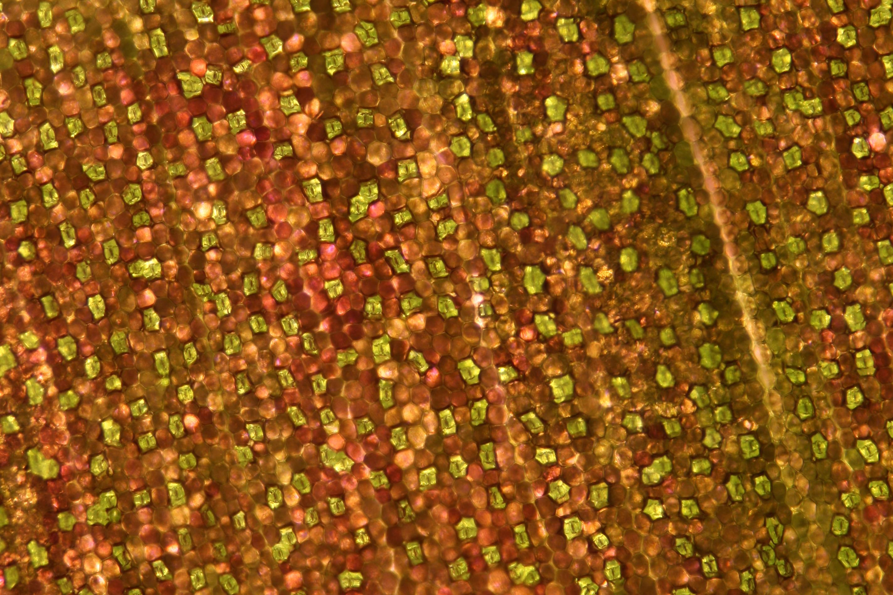 The underside of a leaf of Tradescantia zebrina. The majority of the surface is made up of epidermal cells with the occasional stoma - a pore in the leaf which can open and close to control gas exchange, primarily to mimimise loss of water vapour while still taking up carbon dioxide. In this species the stomata cells are green (due to chlorophyll) while the epidermal cells are red in colour due to additional pigmentation.